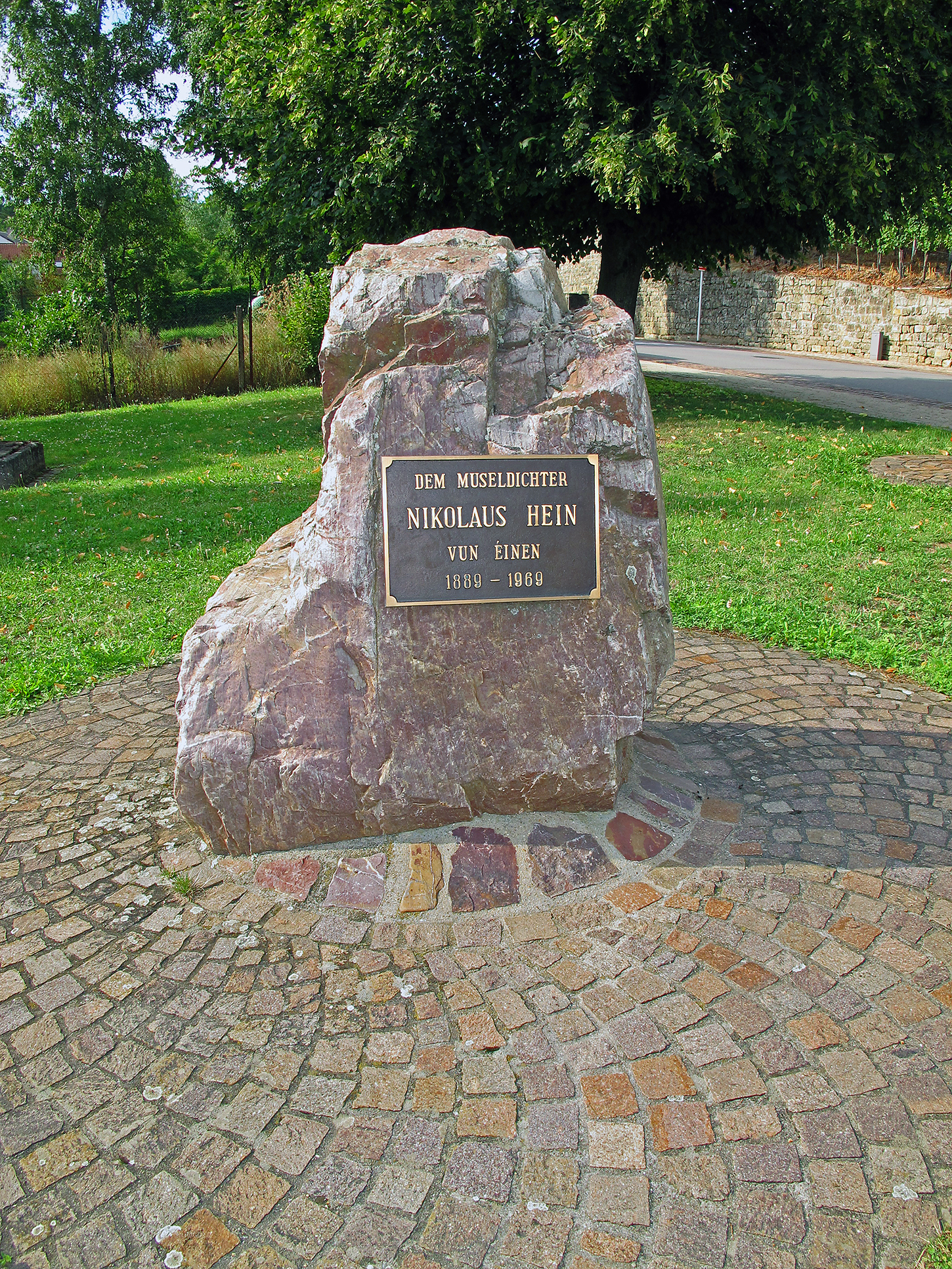 Memorial in Ehnen, Luxembourg, for Nikolaus Hein